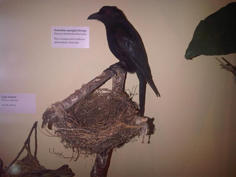 Taxidermied Spangled Drongo (Dicrurus bracteatus) with nest at the Natural History Museum in London, England.